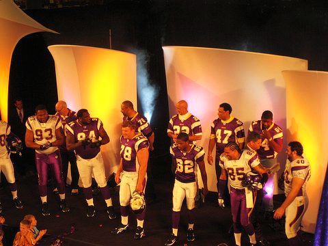 Minnesota Vikings uniforms 2006 unveil